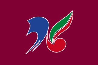 Flag of Nanbu Yamanashi